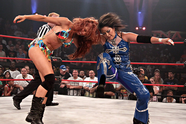 Ayako Hamada, right, in action headbutting Christy Hemme